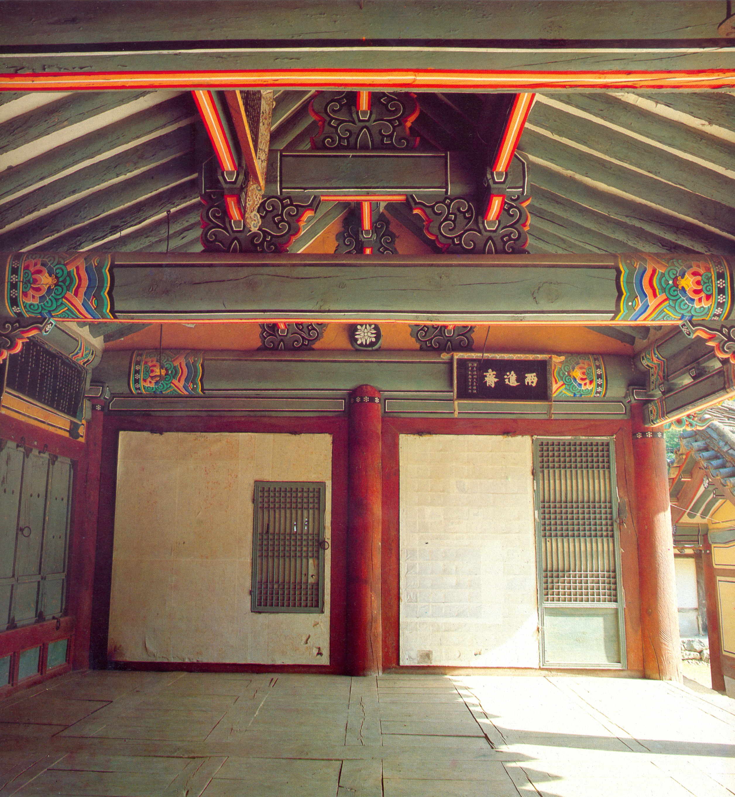 Oksan Seowon in Gyeongju, Korea